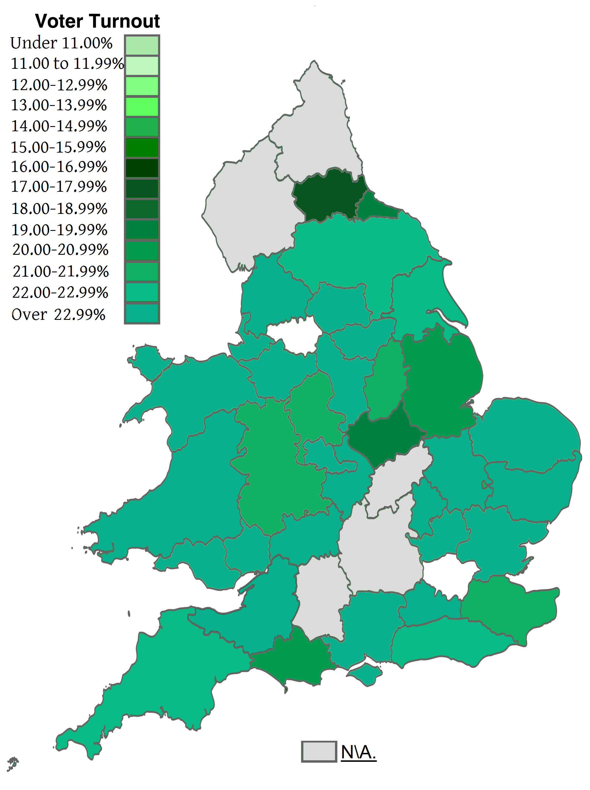 2016 Police commissioner vetoing turnout. Derived from Author: Wipsenade